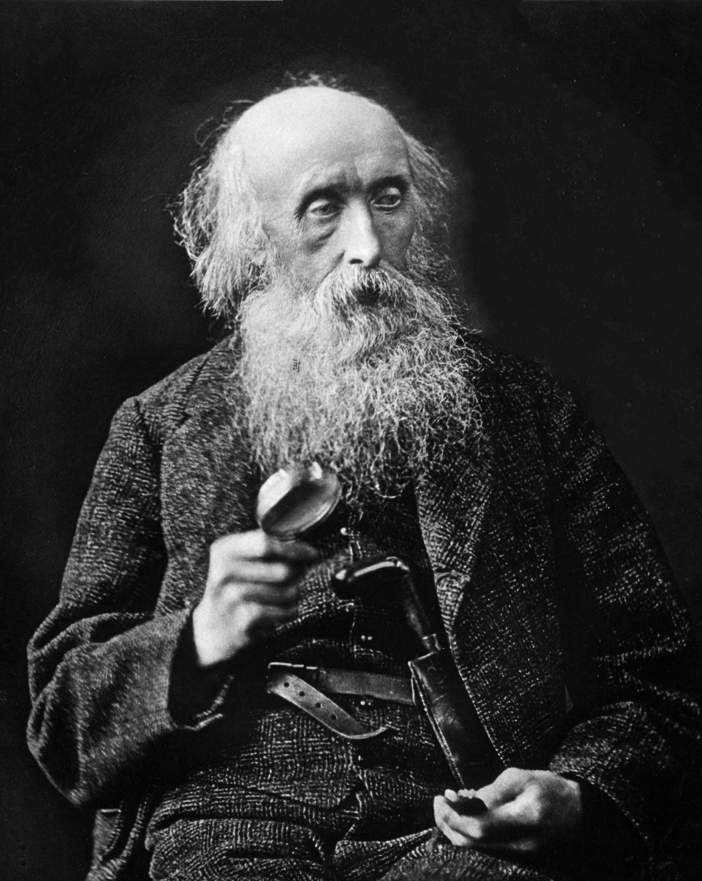 Photograph of John Hutton Balfour (1808–1884), Scottish botanist.